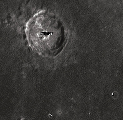 Plinius lunar crater as seen from Earth with satellite craters labeled